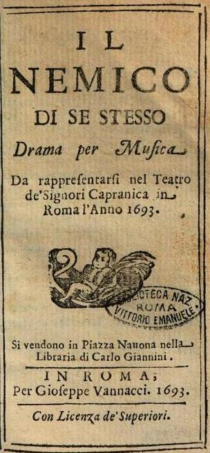 Title page of the libretto to Alessandro Scarlatti's opera Il nemico di se stesso published for its premiere at the Teatro Capranica in Rome on 24 January 1693